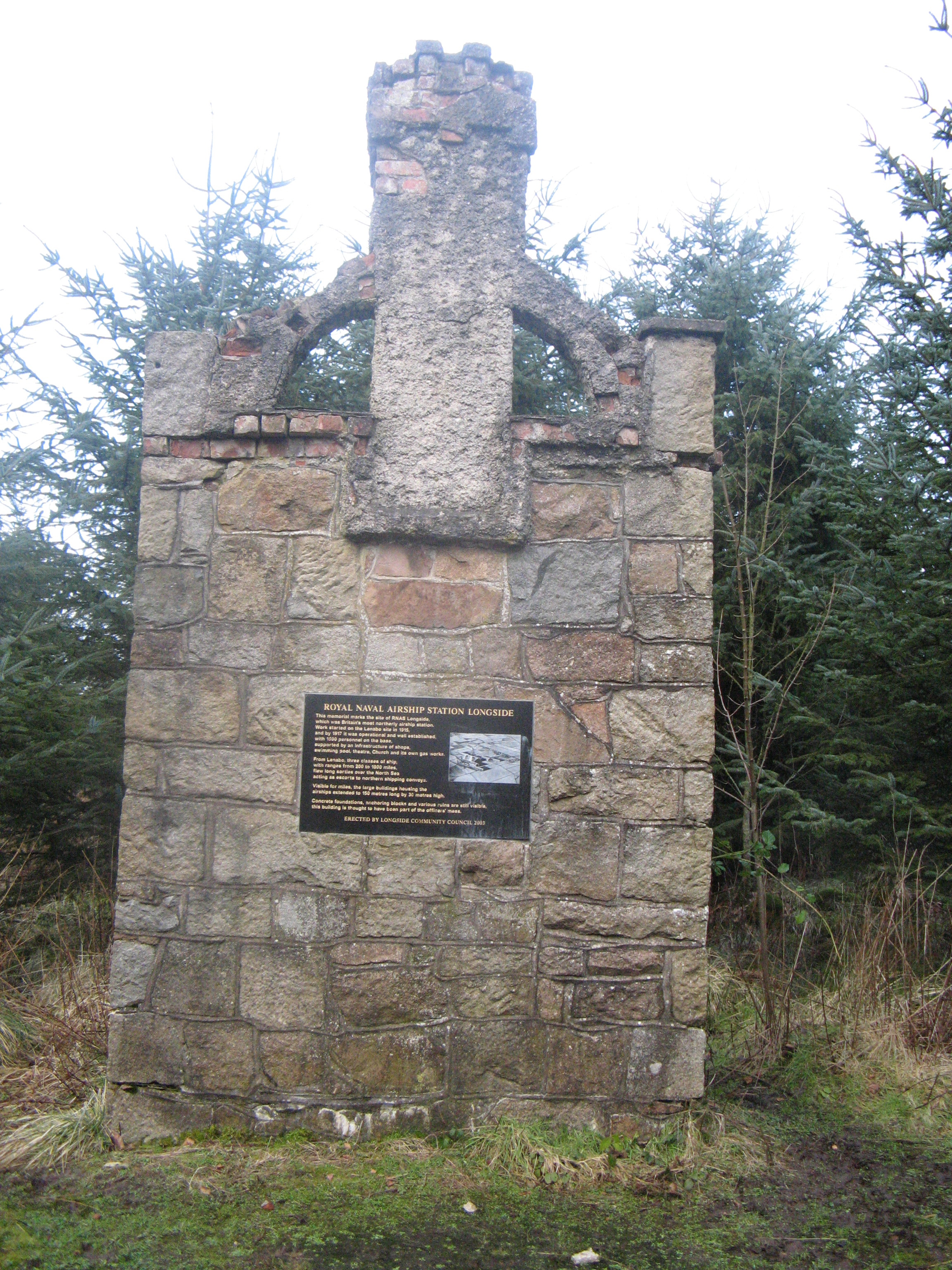 RNAS Lenabo - now at what is entrance to forestry walks